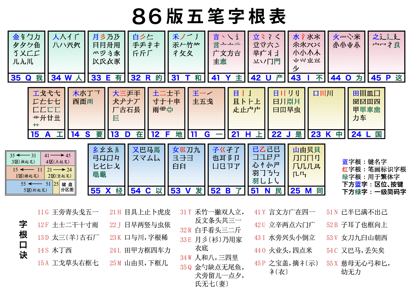 Wubi input method